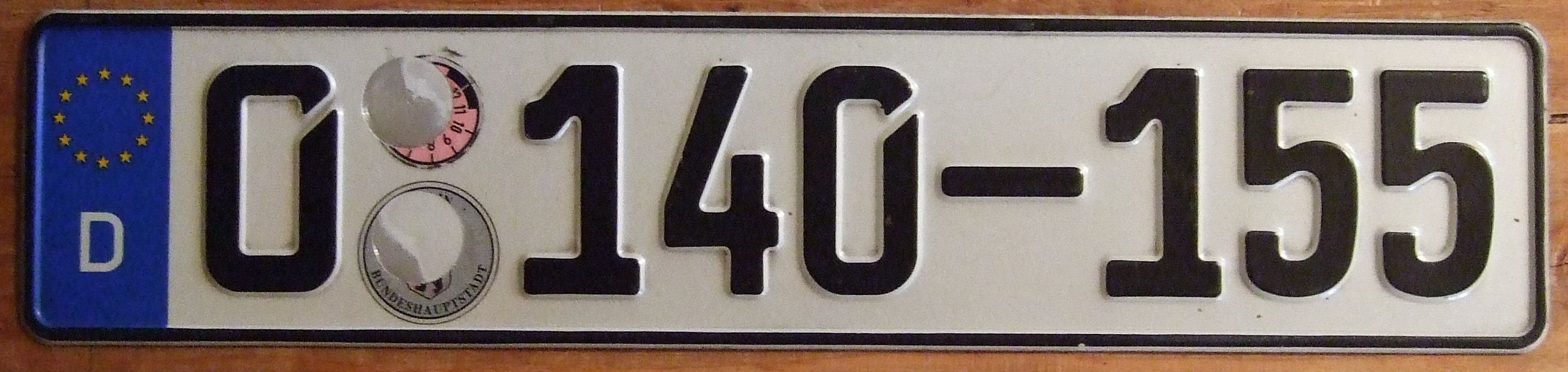 "0" denotes a diplomatic license plate, "140" denotes this diplomatic license plate as being used by the Embassy of the Russian Federation in Germany. #155 is the serial number.